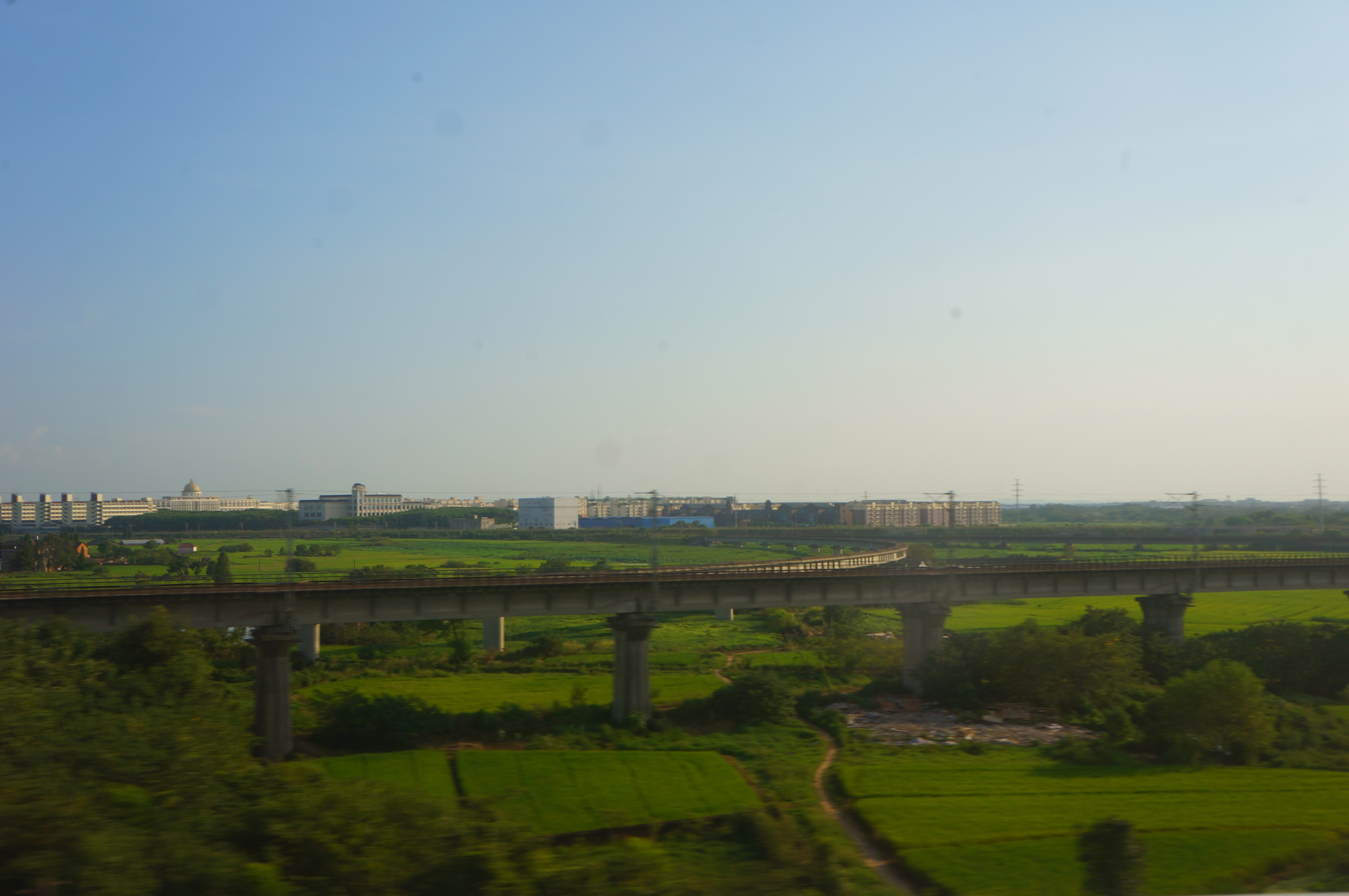 201608 Intersection hub of Nanchang Freight Line and Beijing–Kowloon Railway in Xiangtang